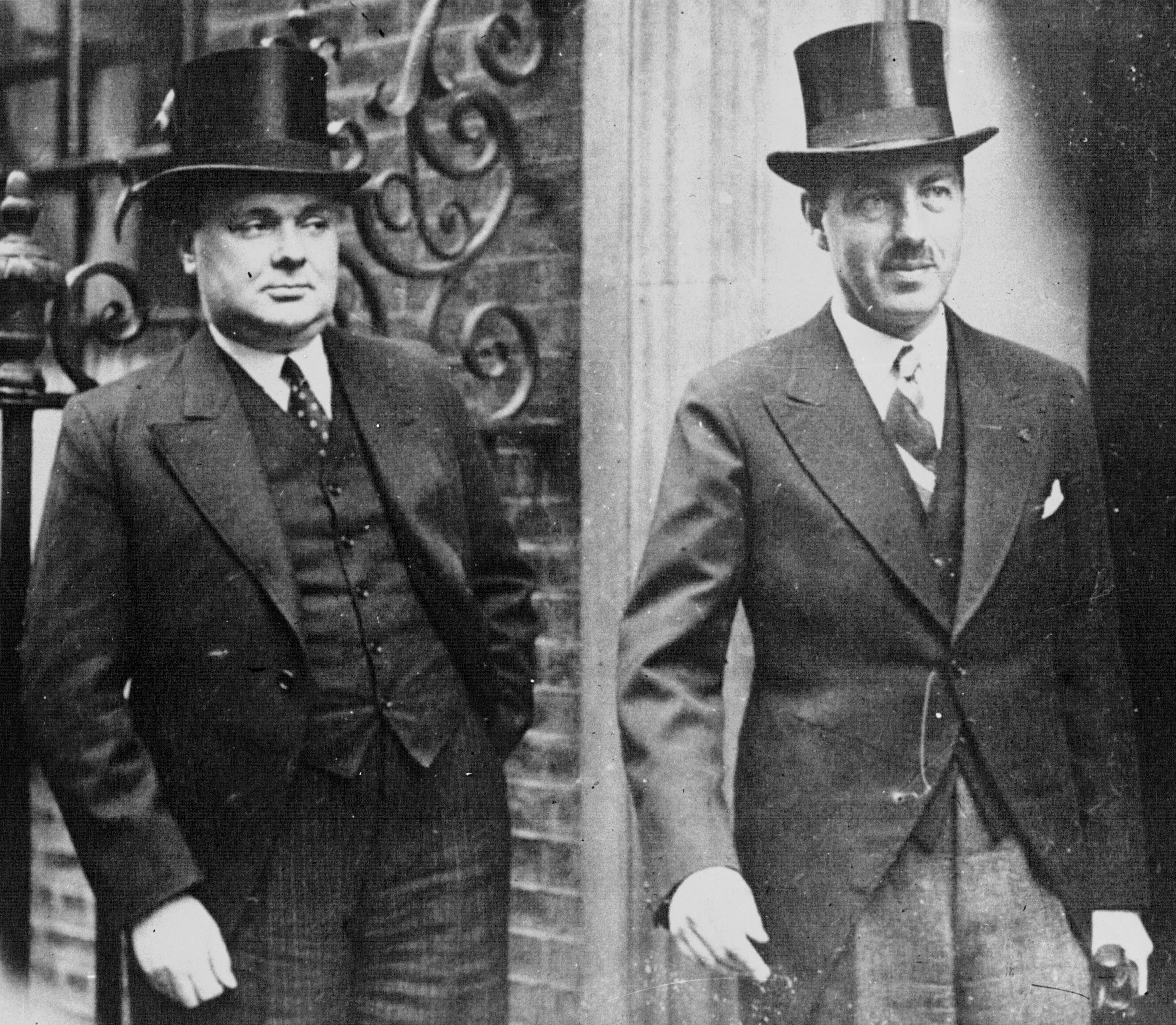 Left to right: Belgian politicians Paul-Henri Spaak (1899-1972) as Minister of Foreign Affairs and Paul van Zeeland (1893-1973) as Prime Minister in 1937.